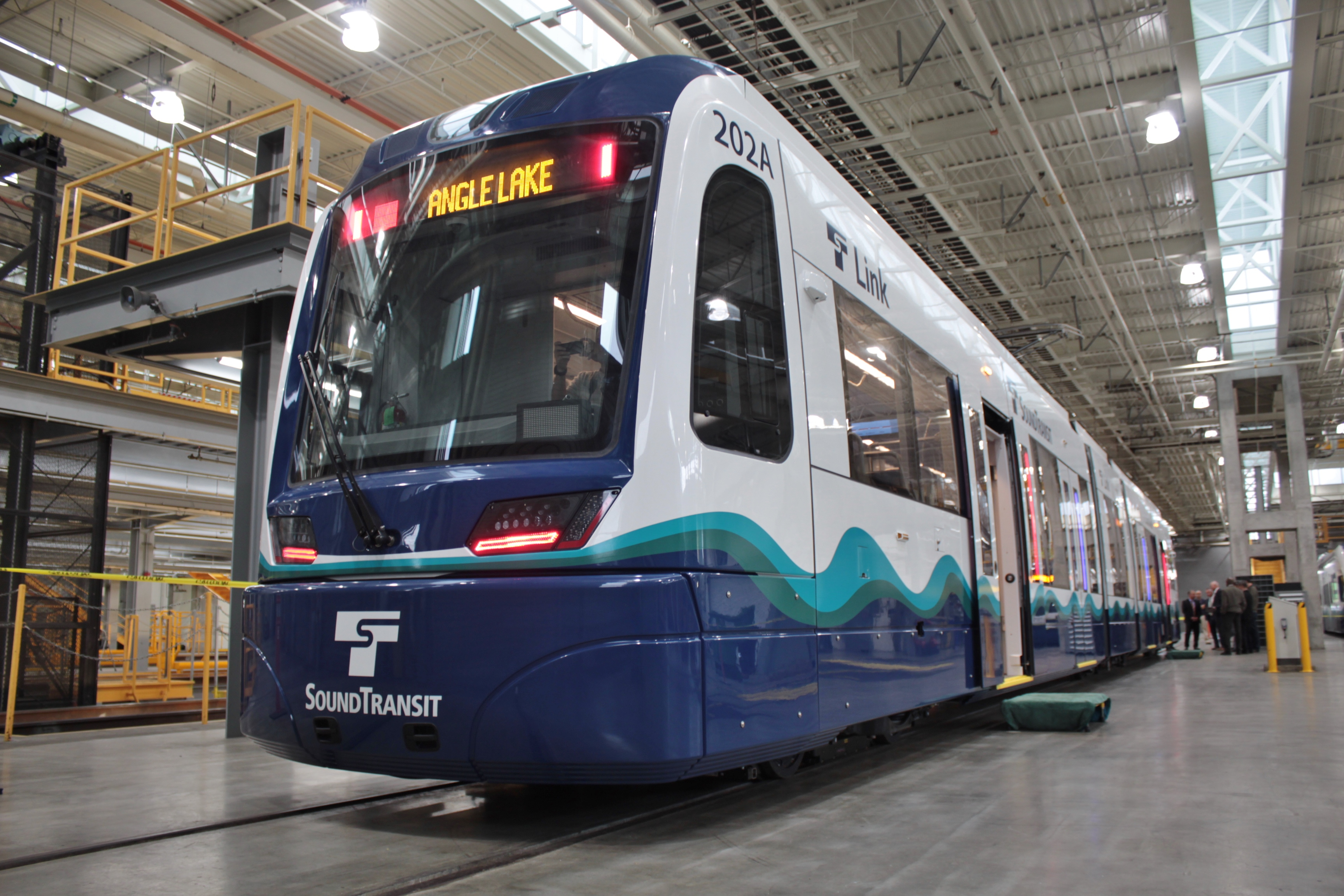 A Siemens S70 light rail vehicle operated by Sound Transit, the first of the "Type 2" series for Link light rail, seen at a media event at the SoDo operations and maintenance facility on June 19, 2019.